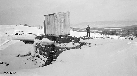 Dam for Kvistingen, 1915. Isen på demningsmuren viser at vannet er nedtappet.